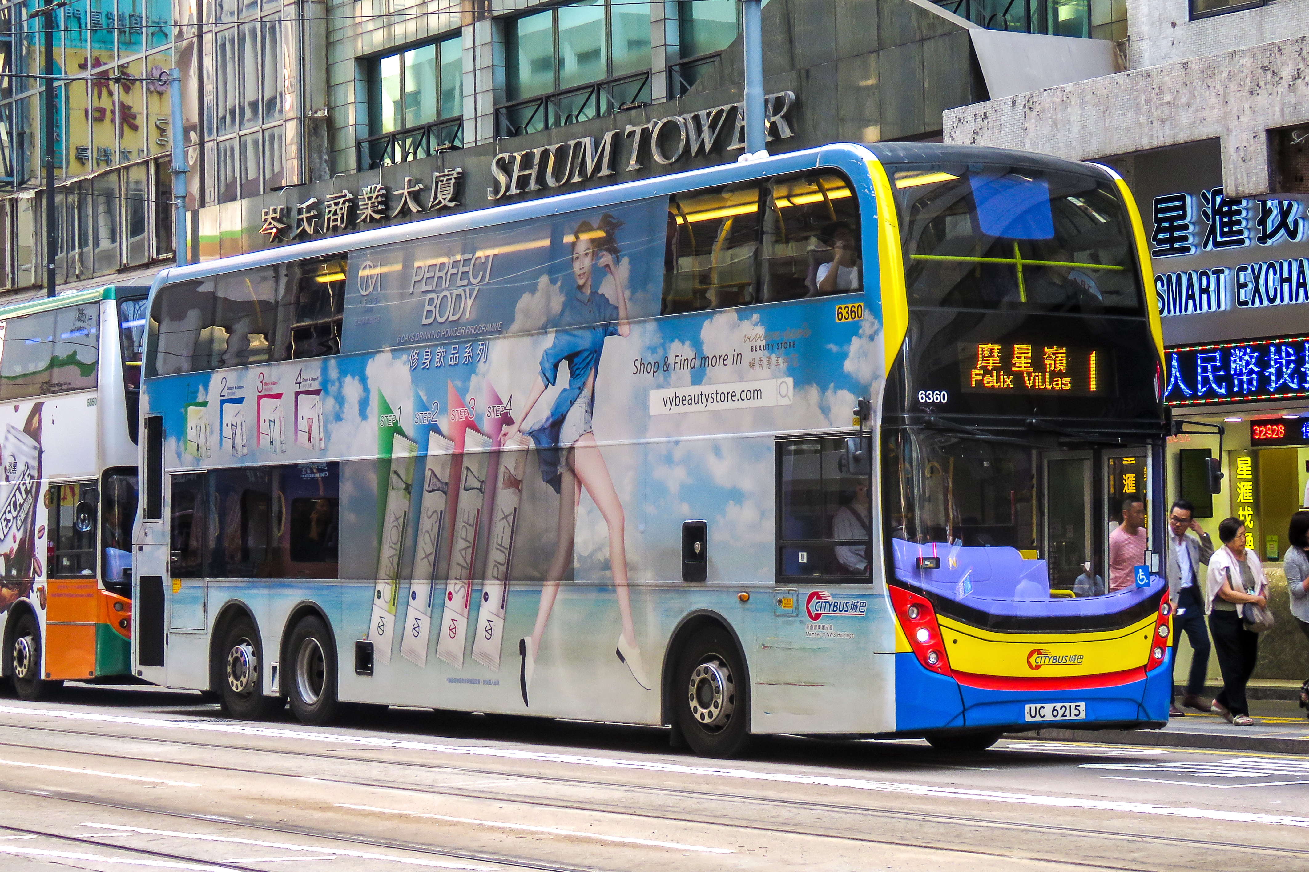 Taken en route to find 88R...